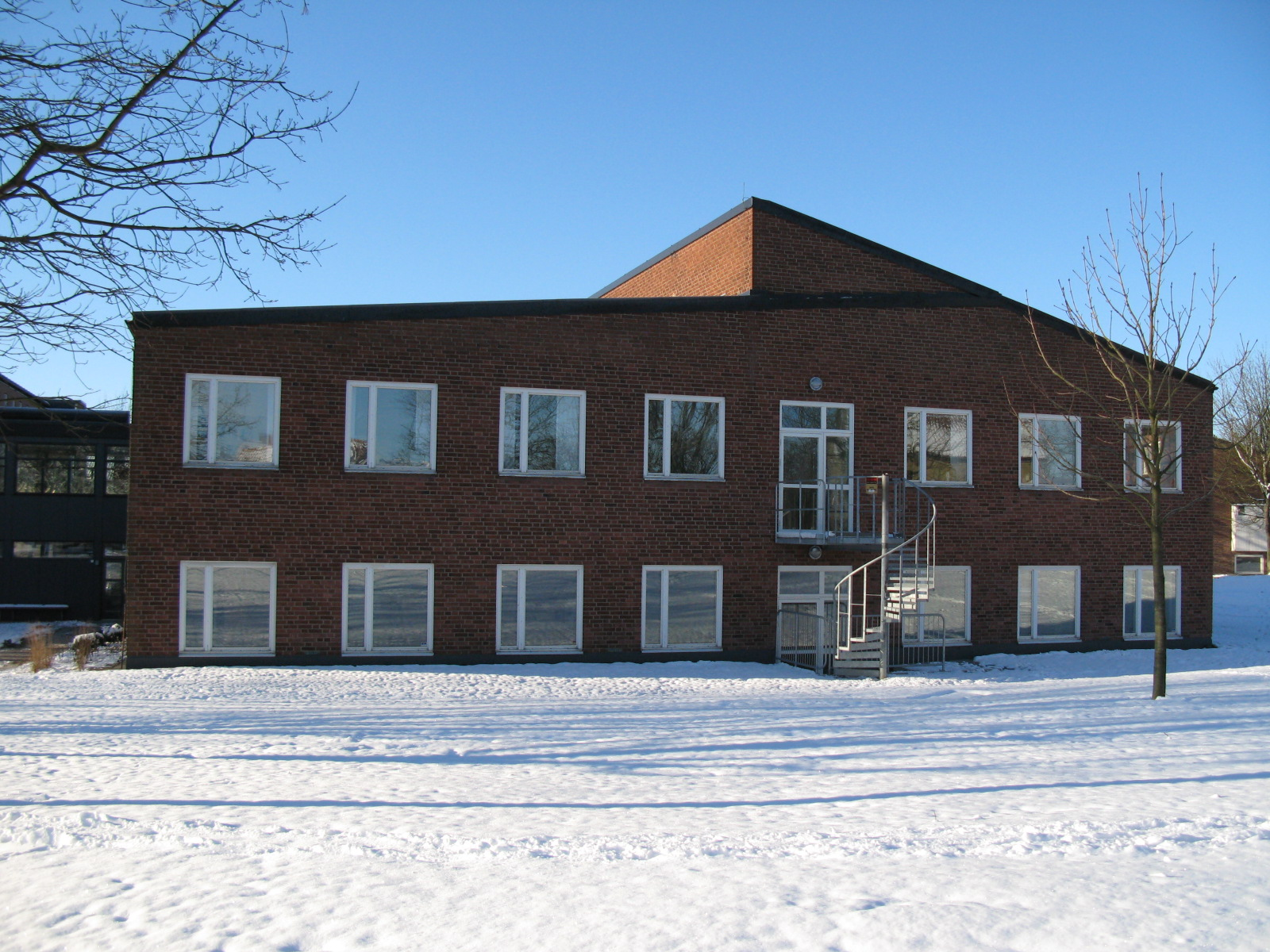 CIRCLE building at Lund University, Sweden - wintertime